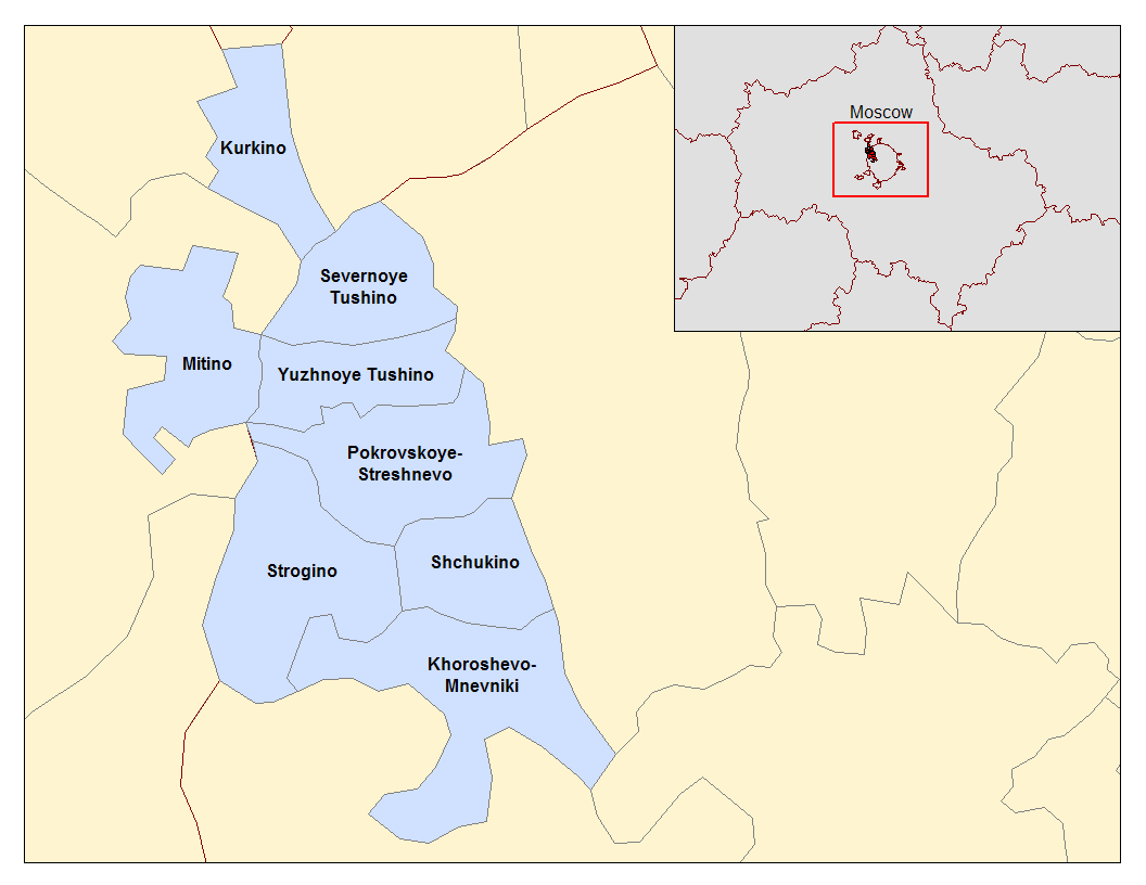 Map of the districts of the North Western Administrative Okrug of the Federal City of Moscow. Created by Rarelibra 20:51, 3 April 2007 (UTC) for public domain use, using MapInfo Professional v8.5 and various mapping resources.